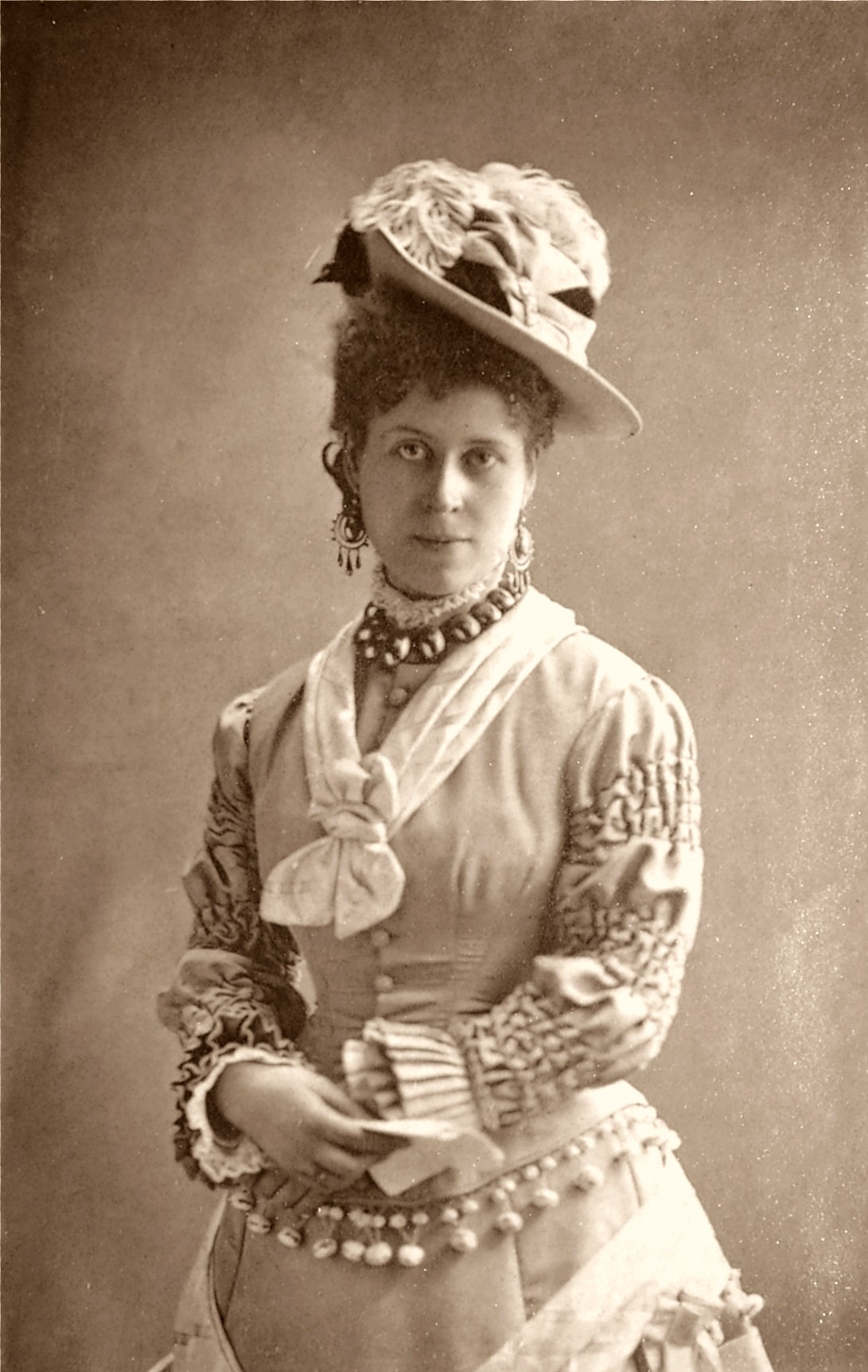 Caroline Hill - Mrs. Herbert Kelcey, English Actress.